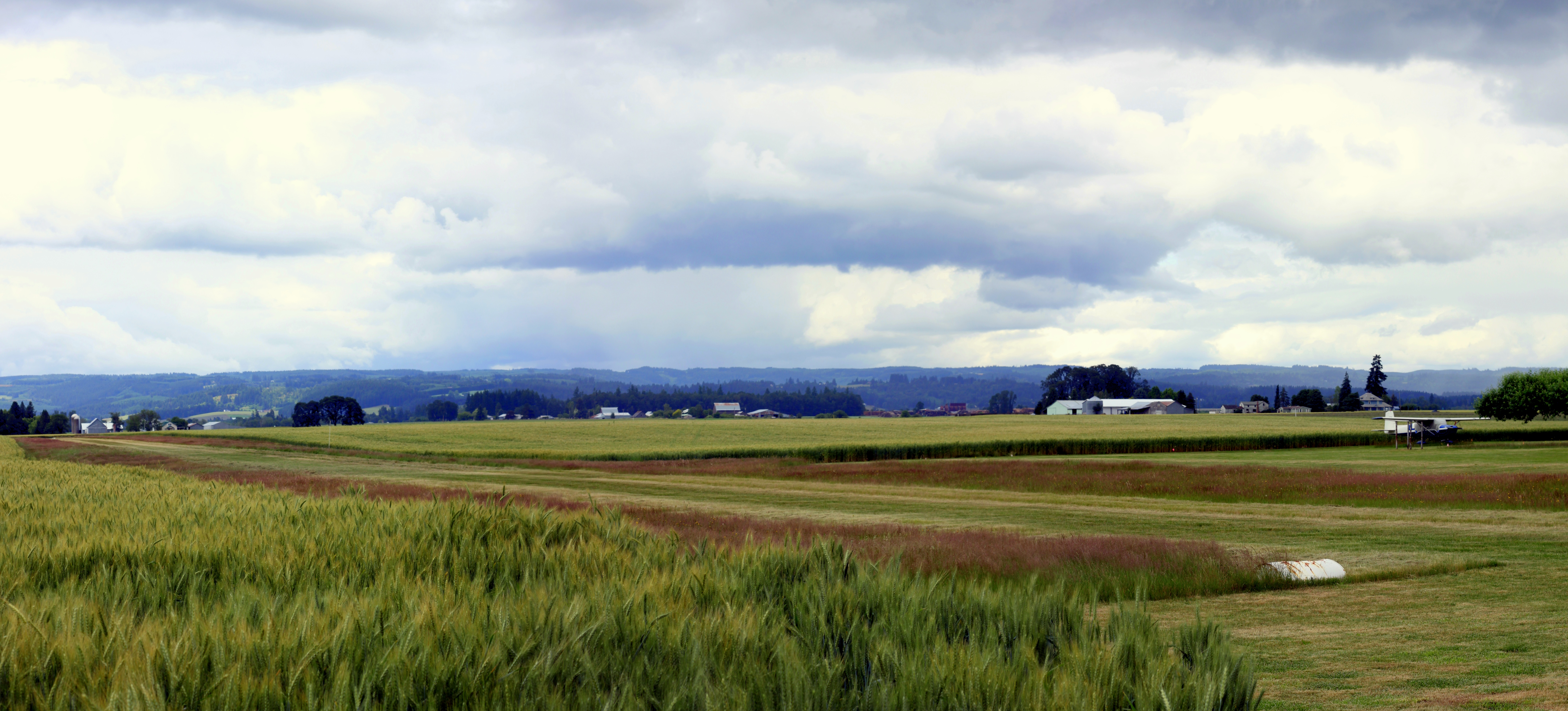 Skyport Airport near Cornelius, Oregon